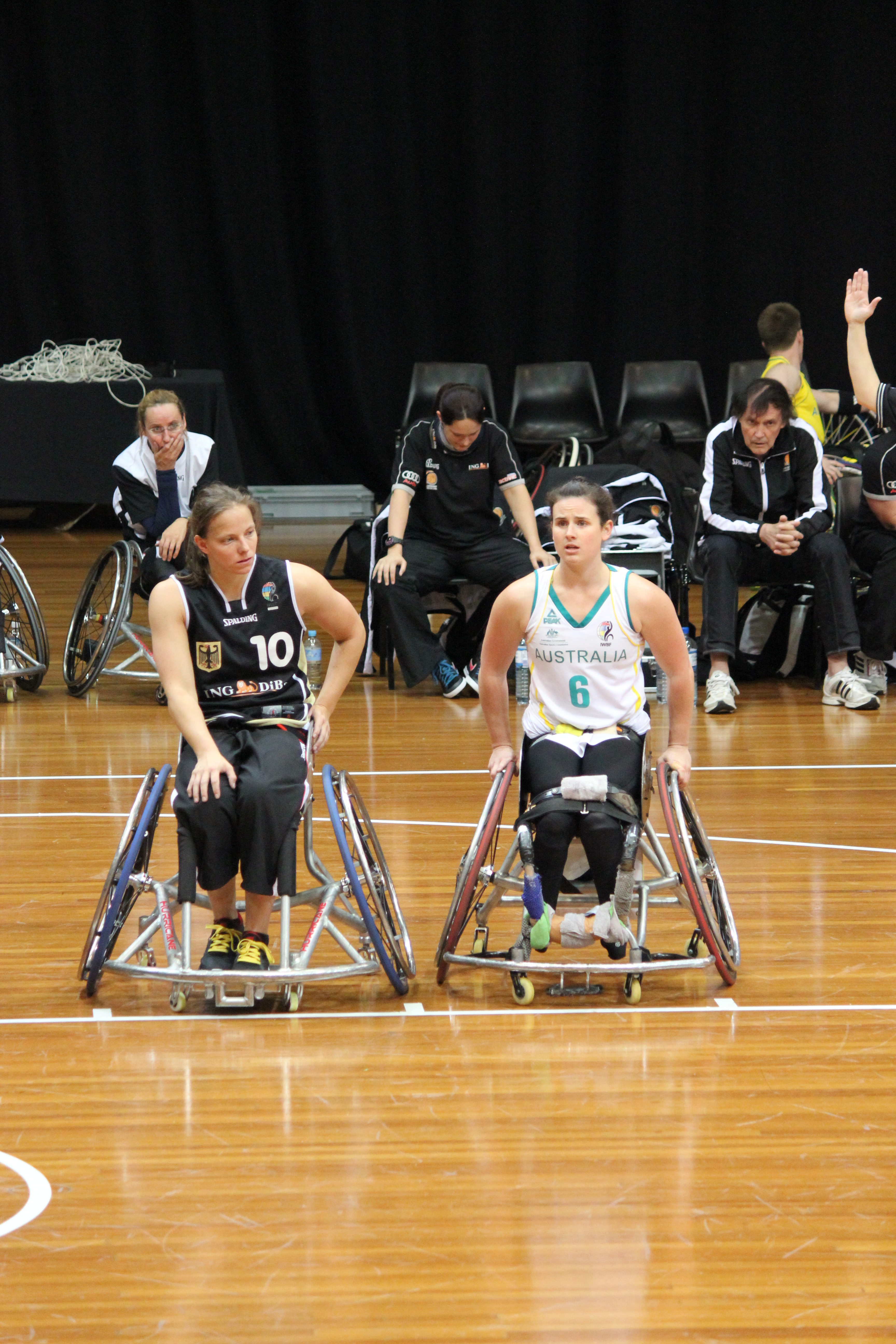 Gesche Schünemann (Germany) and Bridie Kean (Australia) in a preliminary match of the 2012 Rollers & Gliders World Challenge at Sydney's State Sports Centre. The hosts won 53–45. The German and Australian teams went on to win gold and silver at the 2012 Paralympics seven weeks later.